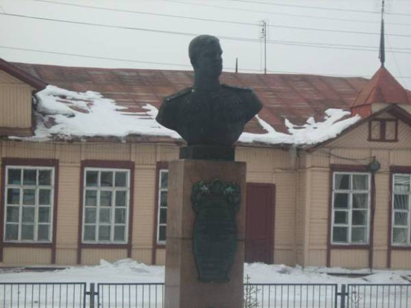 Vasiliy Andrianov monument near railway station in Sonkovo, Tver region